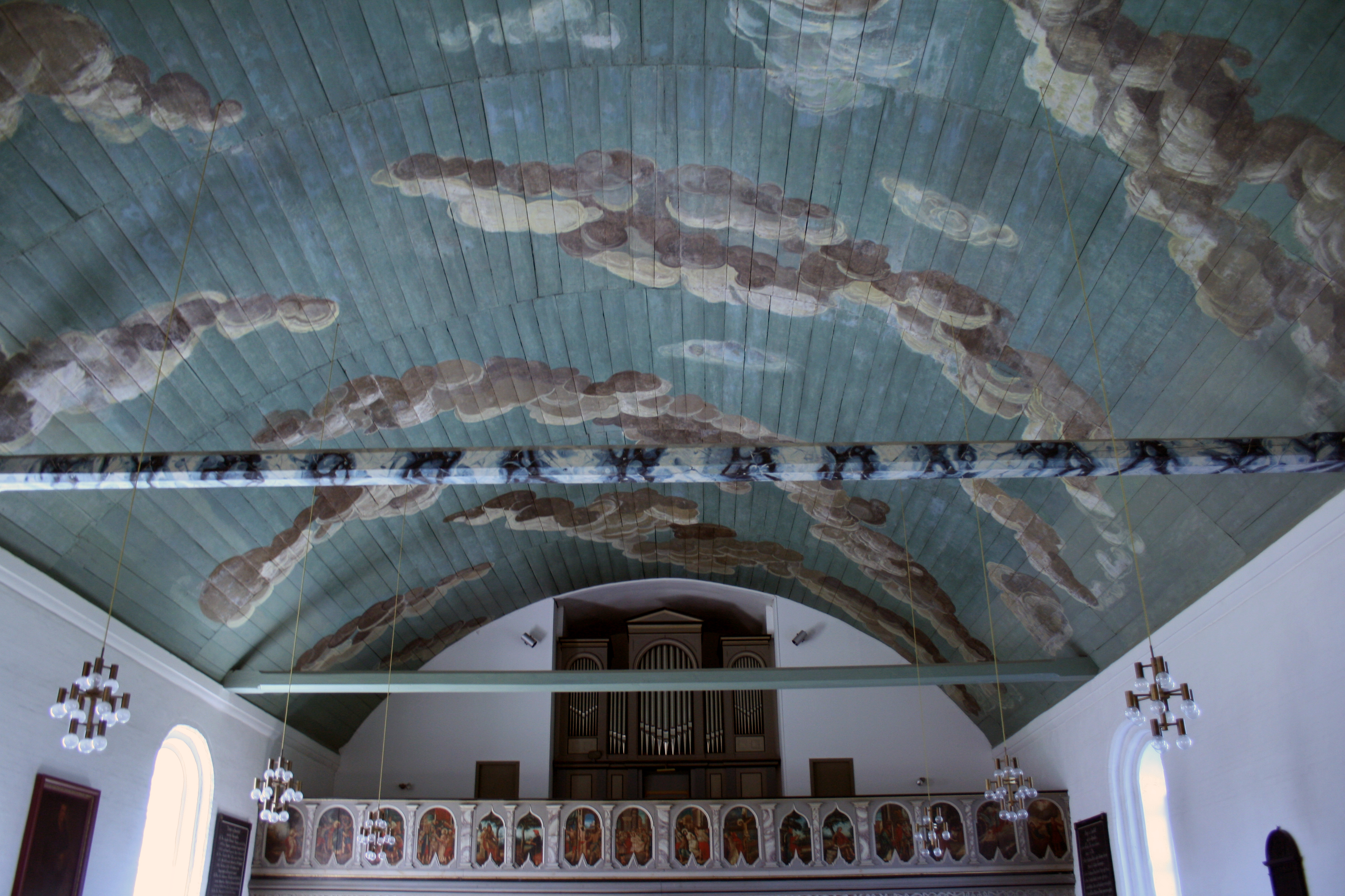 Vault of the St. Rimbert's Church of Emmelsbüll, Schleswig-Holstein, Germany